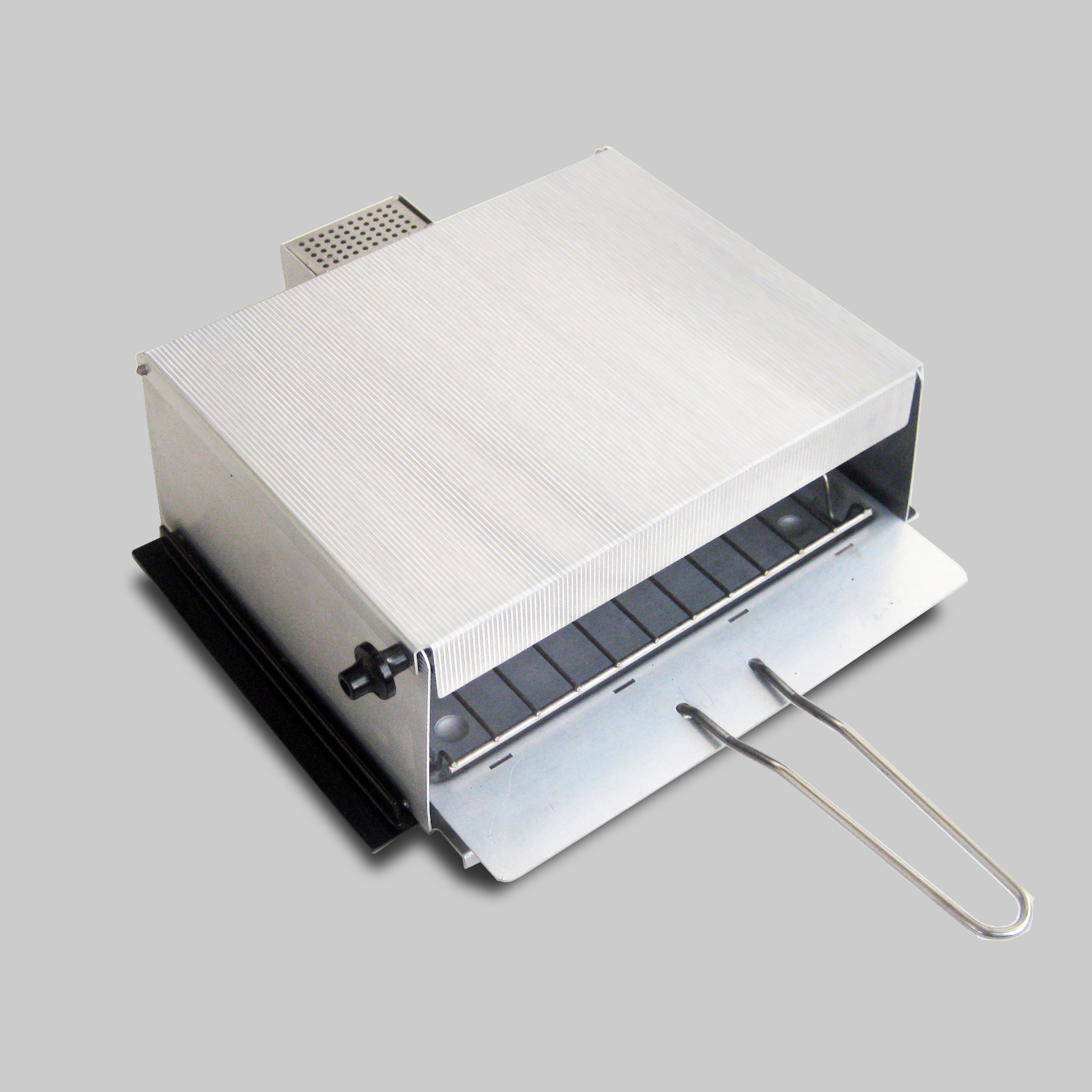 Electric grill "TG 12" made by Acosta in Germany